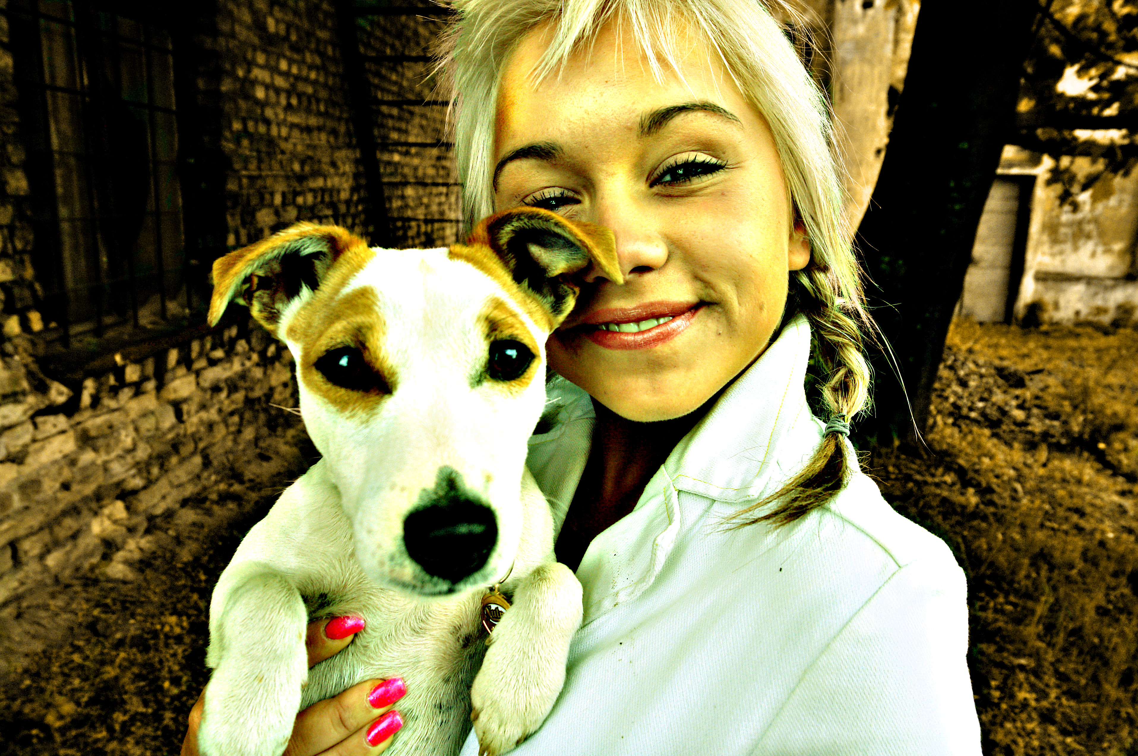 Latvian singer Aisha at Grizinkalns, Riga in 2006.